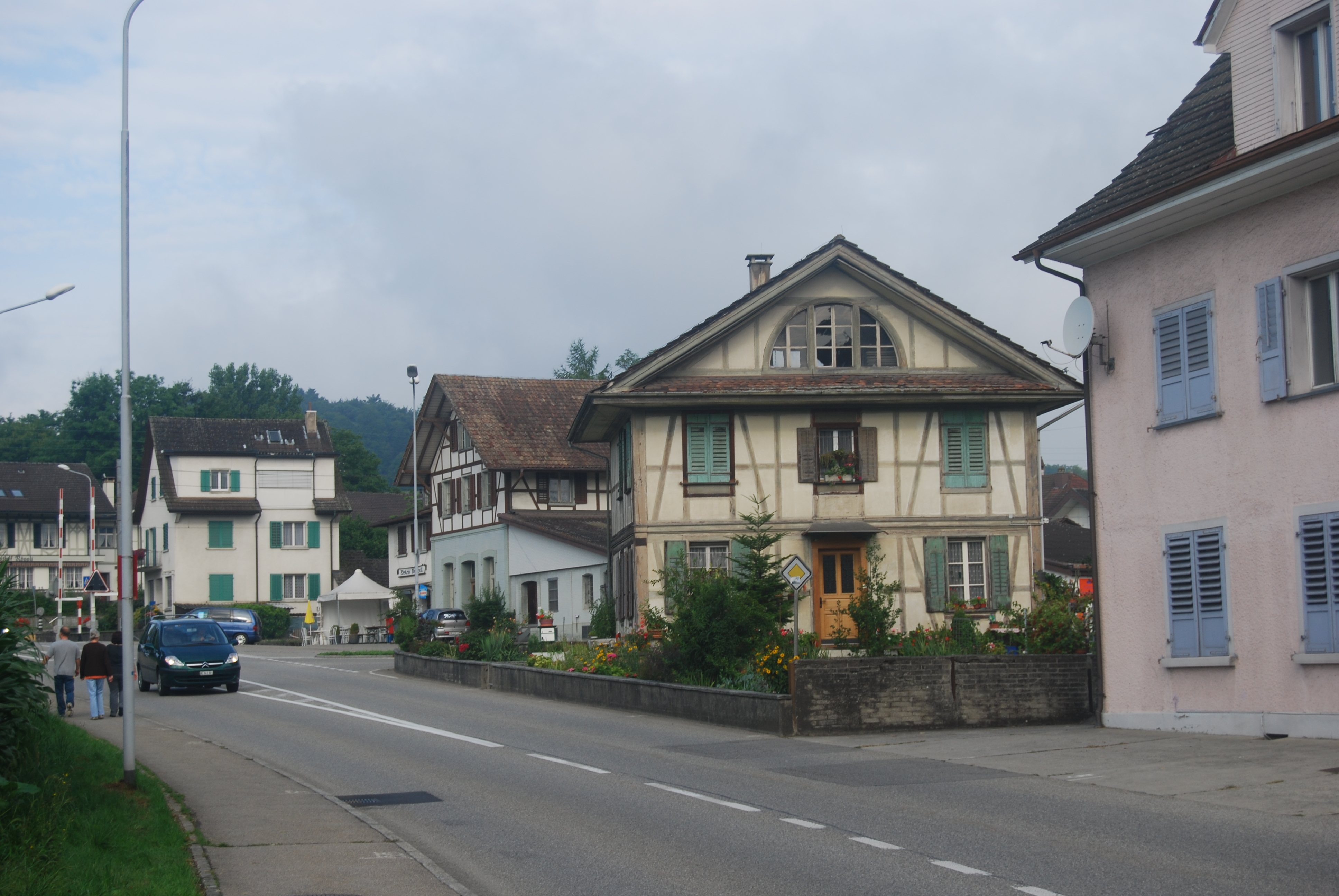 Roggwil, canton of Bern, Switzerland